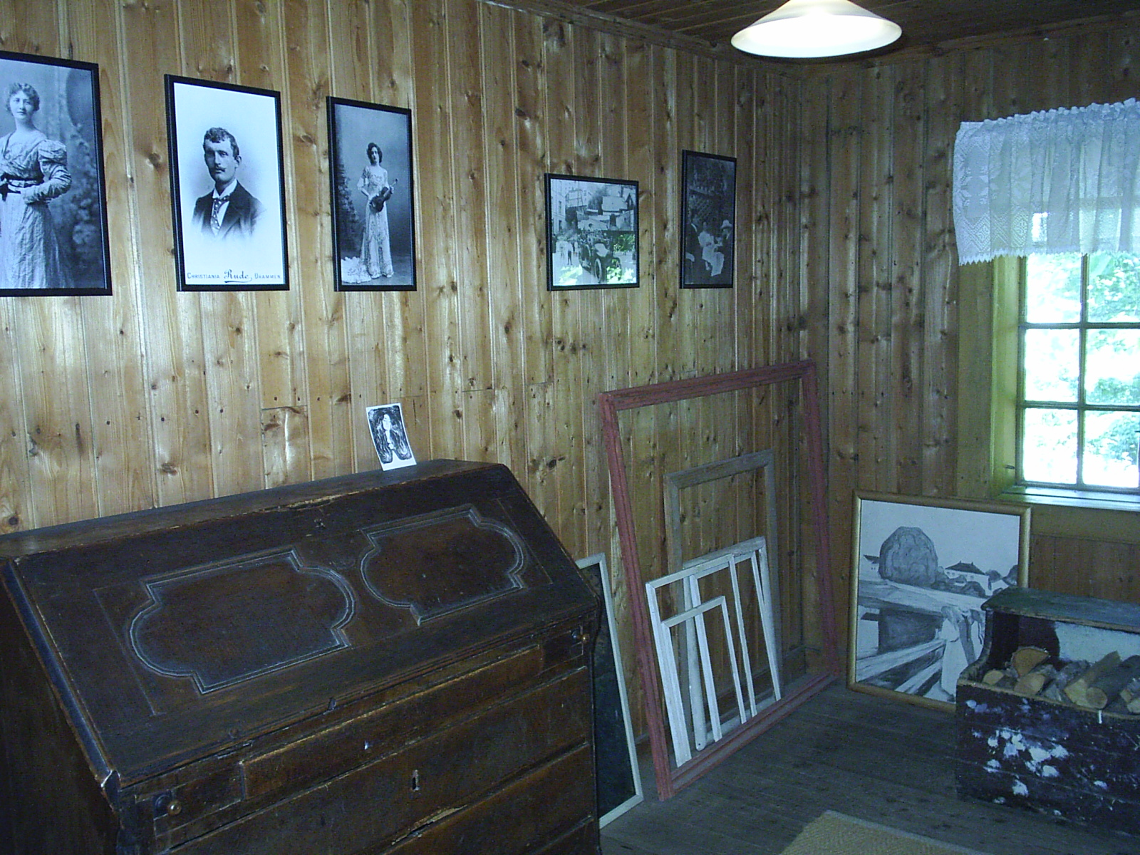 The interior of Edvard Munch's house in Åsgårdstrand, Norway